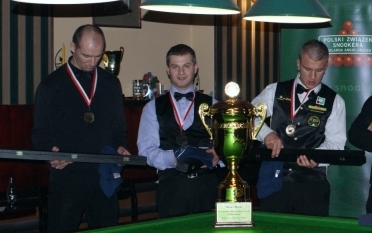 Jason Wright, Krzysztof Wróbel, Marcin Nitschke - Polish National Team Snooker Champions 2008